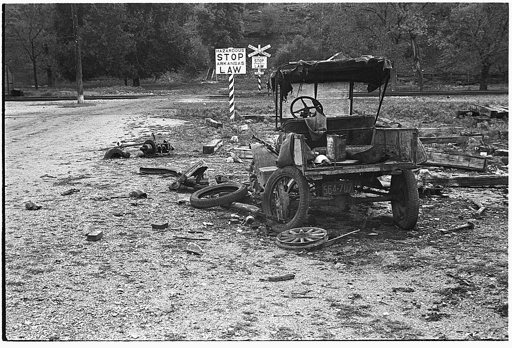 Scene outsided Zinc, Arkansas, deserted mining town Farm Security Administration - Office of War Information Photograph Collection (Library of Congress)